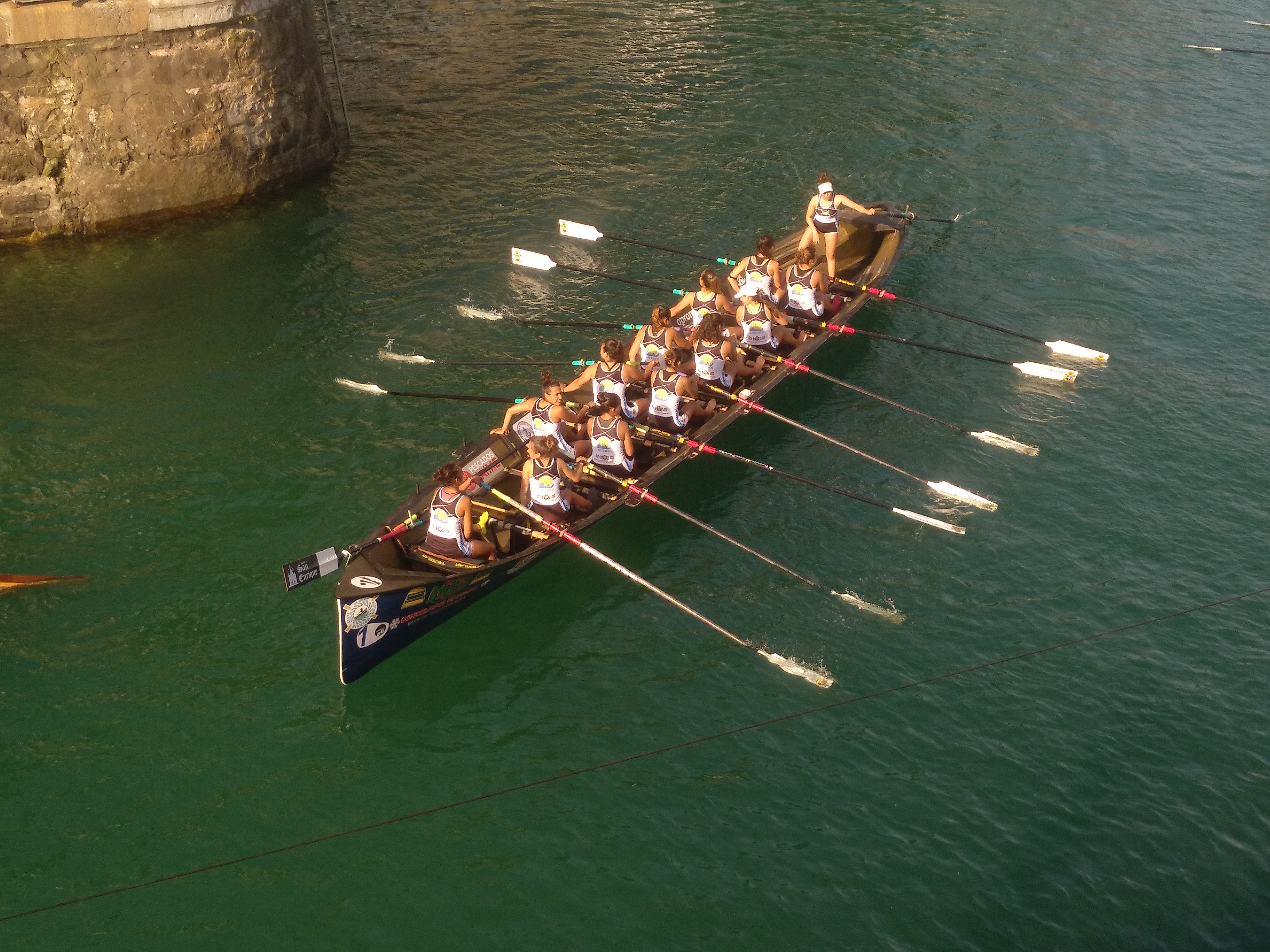 Club de Remo Náutico de Riveira, Flag of La Concha, 2018